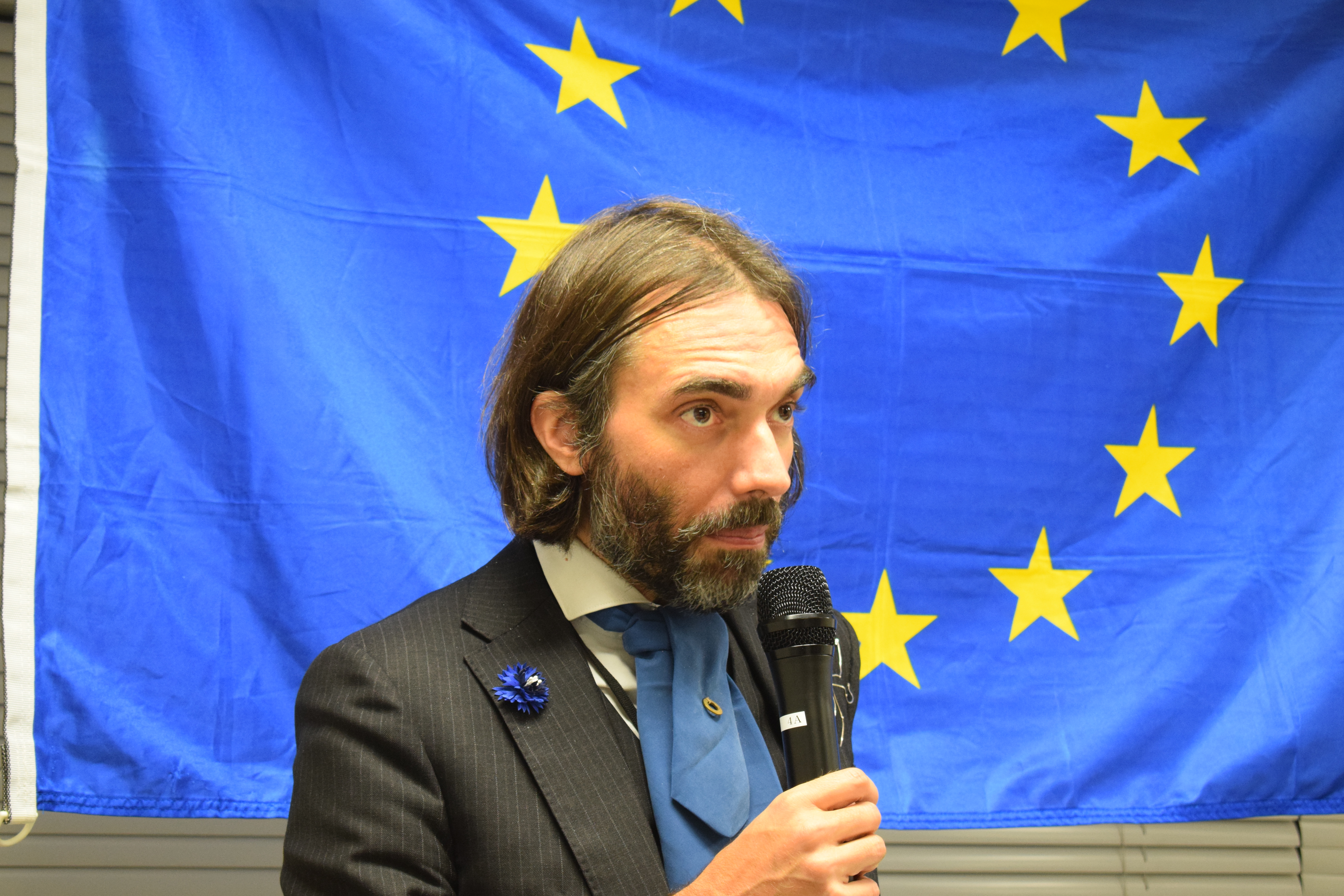 Wearing his usual lavallière tie and spider accessory, plus a seemingly new blue pin, not sure what its meaning is? Notice the EU flag in the background, which was one of the topics of the meeting. Picture taken towards the beginning of the speech, to which he arrived late due to a previous visit to a French school.